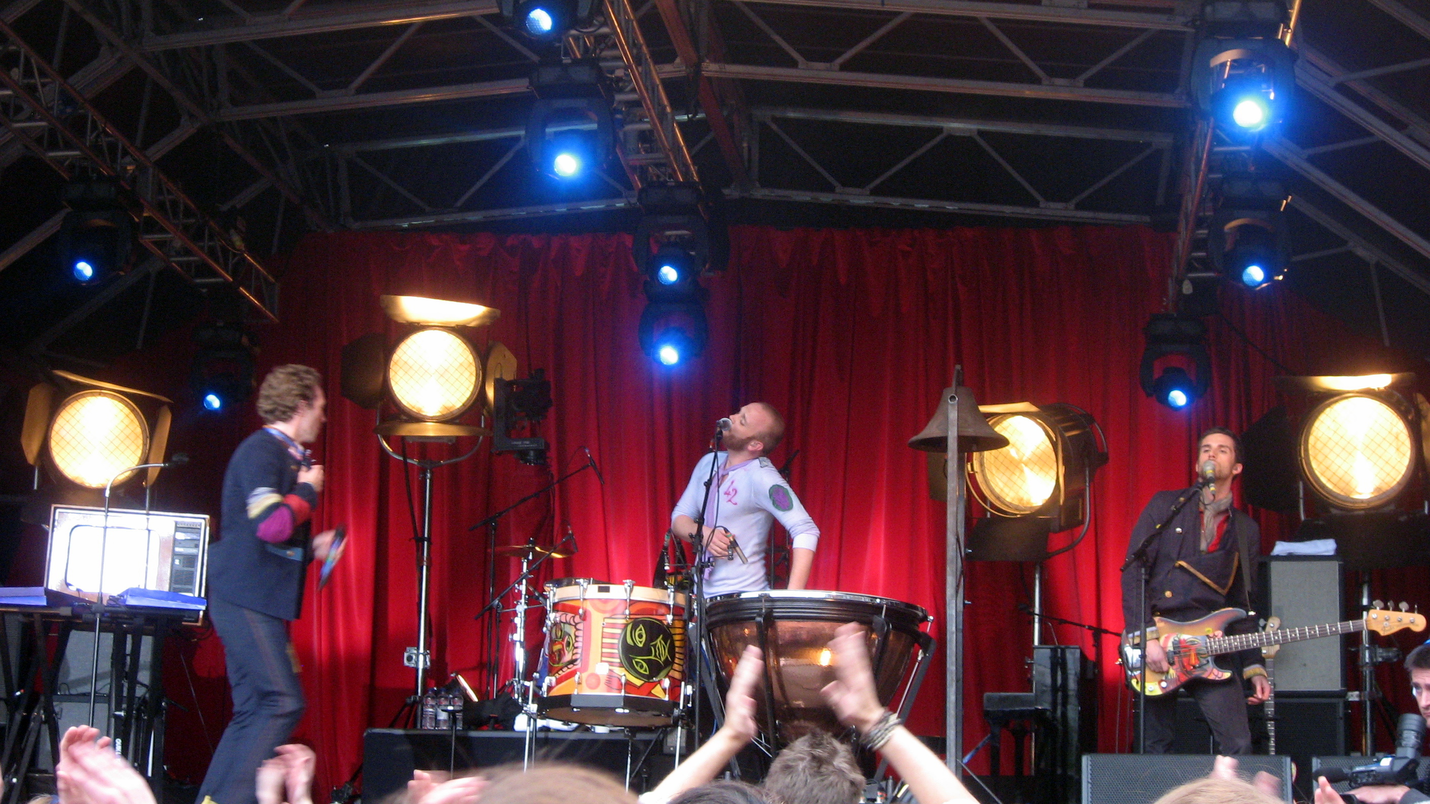 Coldplay